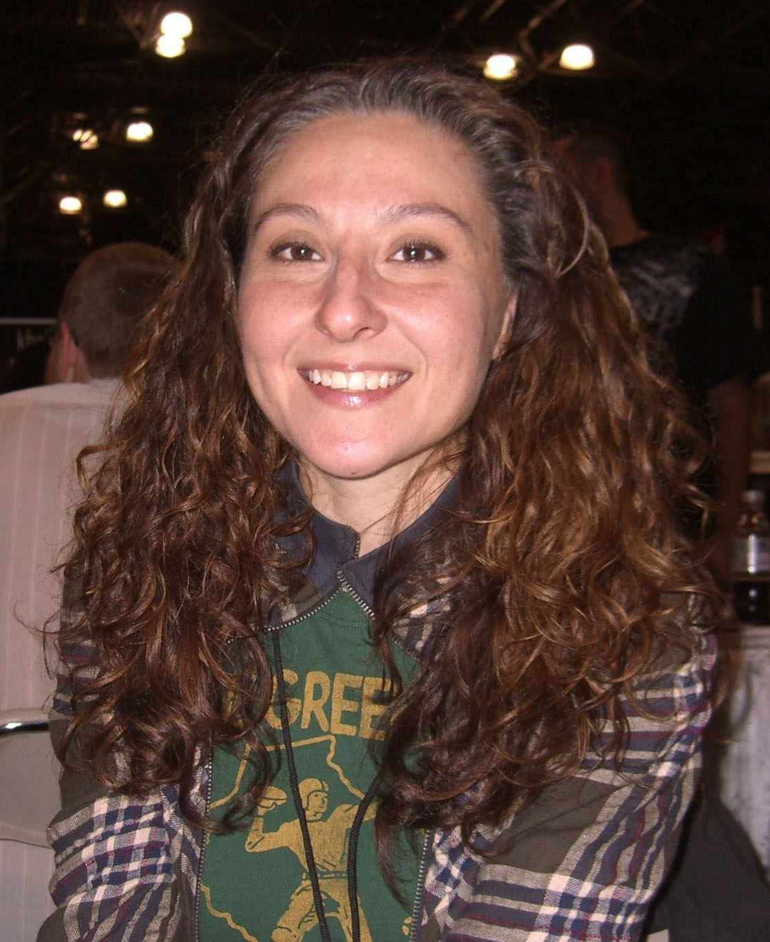 Comic book creator Beth Sotelo, at the New York Comic Convention in Manhattan, October 10, 2010. Photo by Luigi Novi. This photo may be used, modified and published for any purpose, only if a easily visible credit to the photographer is placed near the photo in each instance in which it is used. (See licensing information below.) Publication of this photo without this proper attribution constitute copyright infringement. For more information on my photos, you can contact me here.